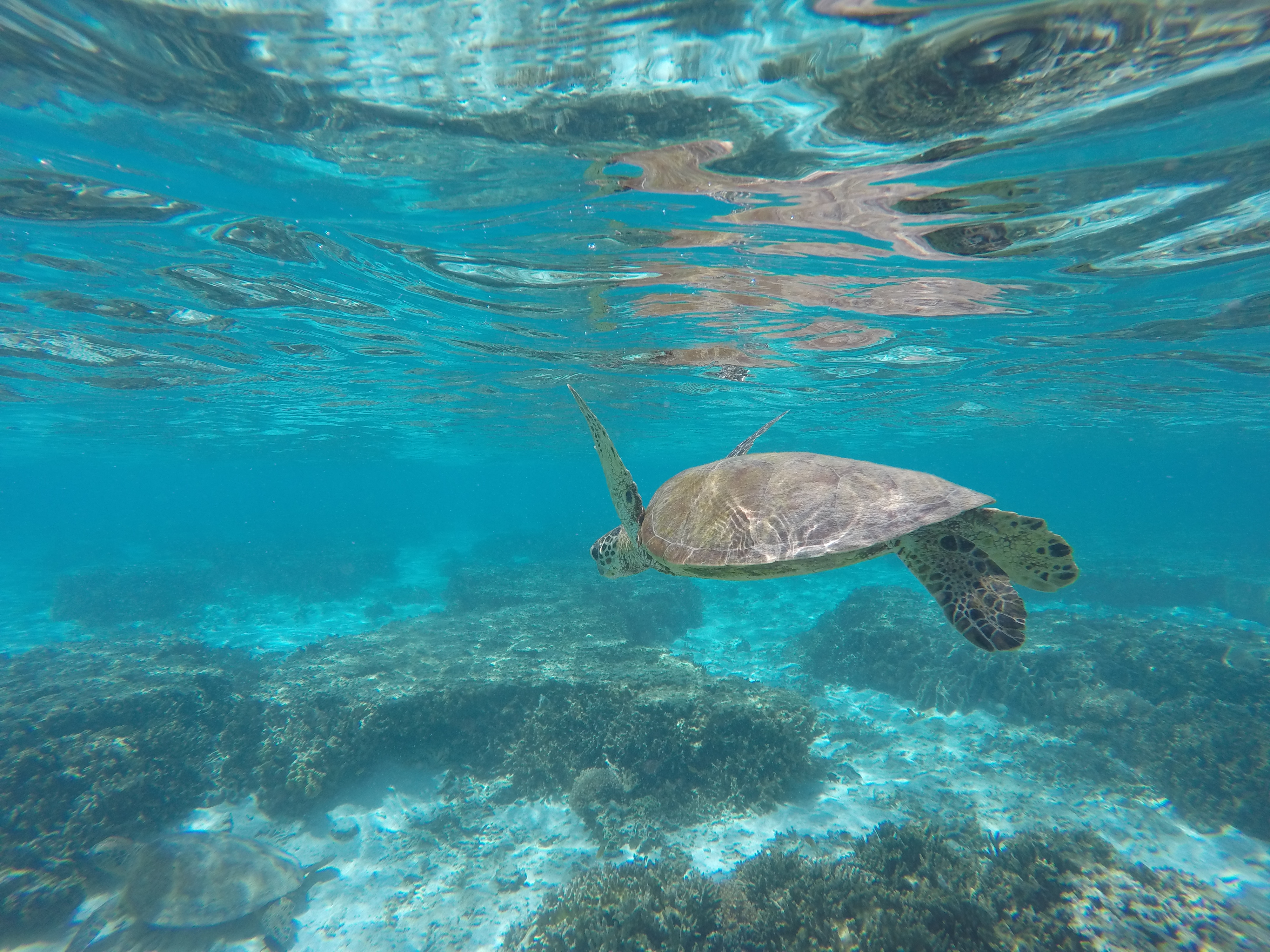 Swimming with Turtles in the Great Barrier Reef